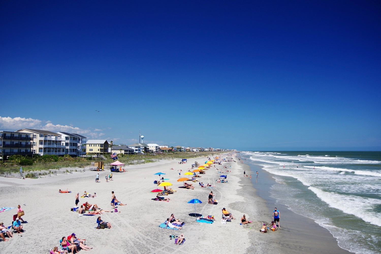 Folly Beach, South Carolina, United States, looking northeast from the pier.